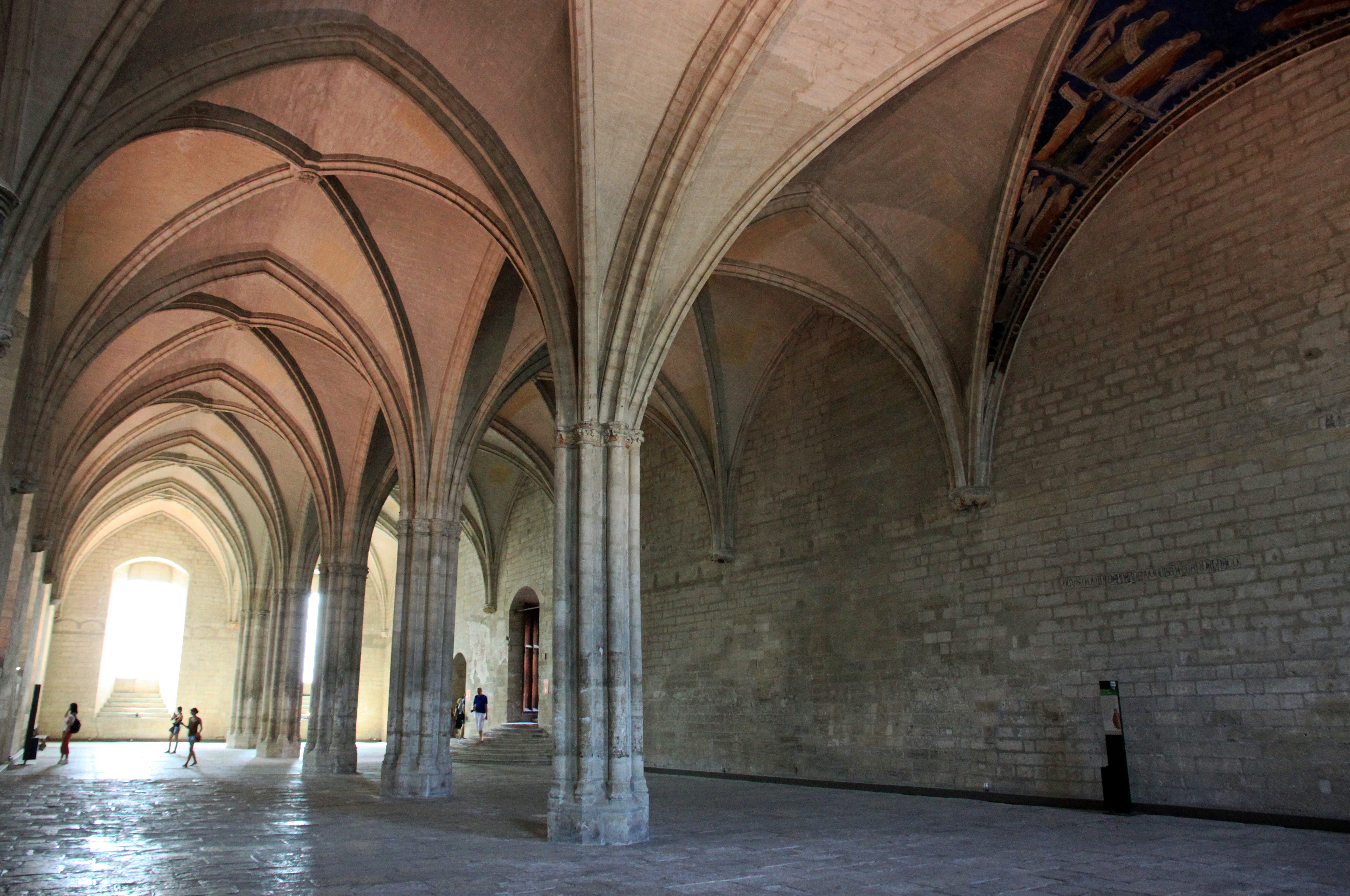 Room of the "Great Audience", Palais des Papes, Avignon.